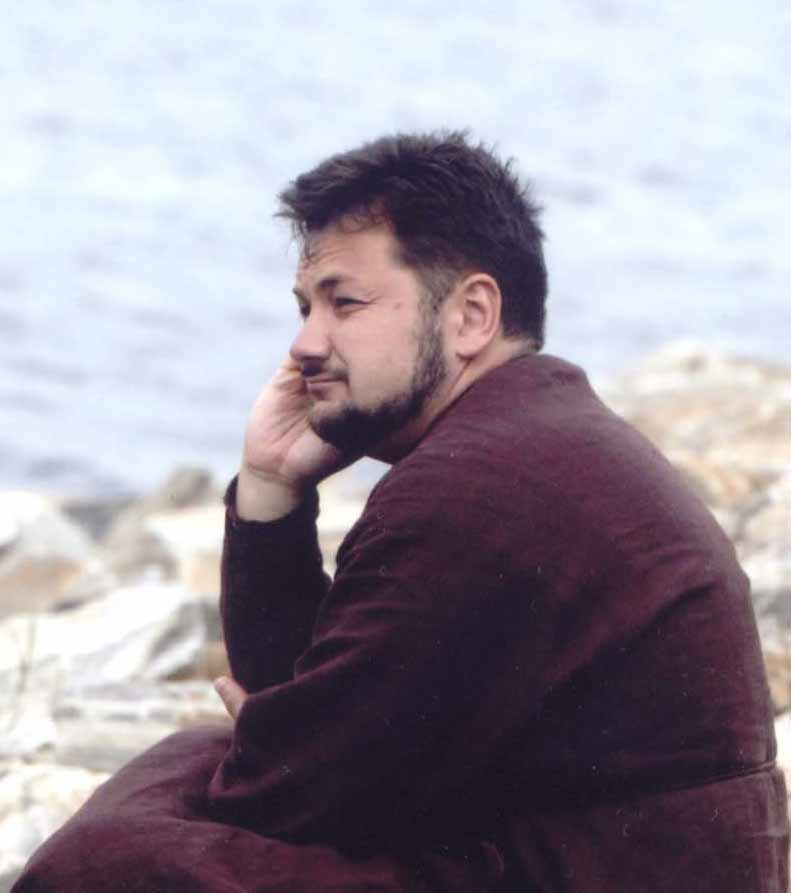 Father Sergey Golovanov